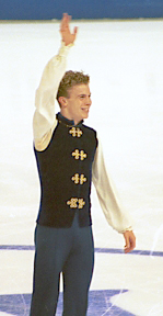 Timothy Goebel competes his long program at the 2001 Grand Prix Final in Kitchener, Ontario.